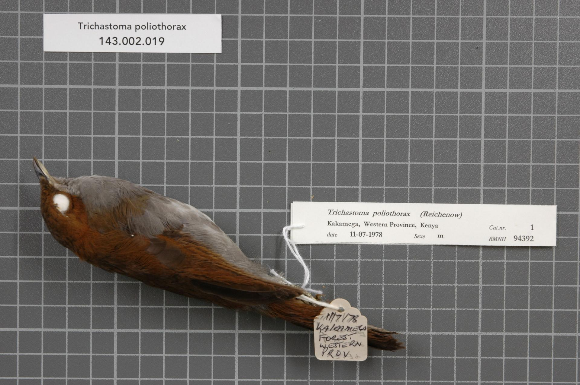 Trichastoma poliothorax (Reichenow, 1900)